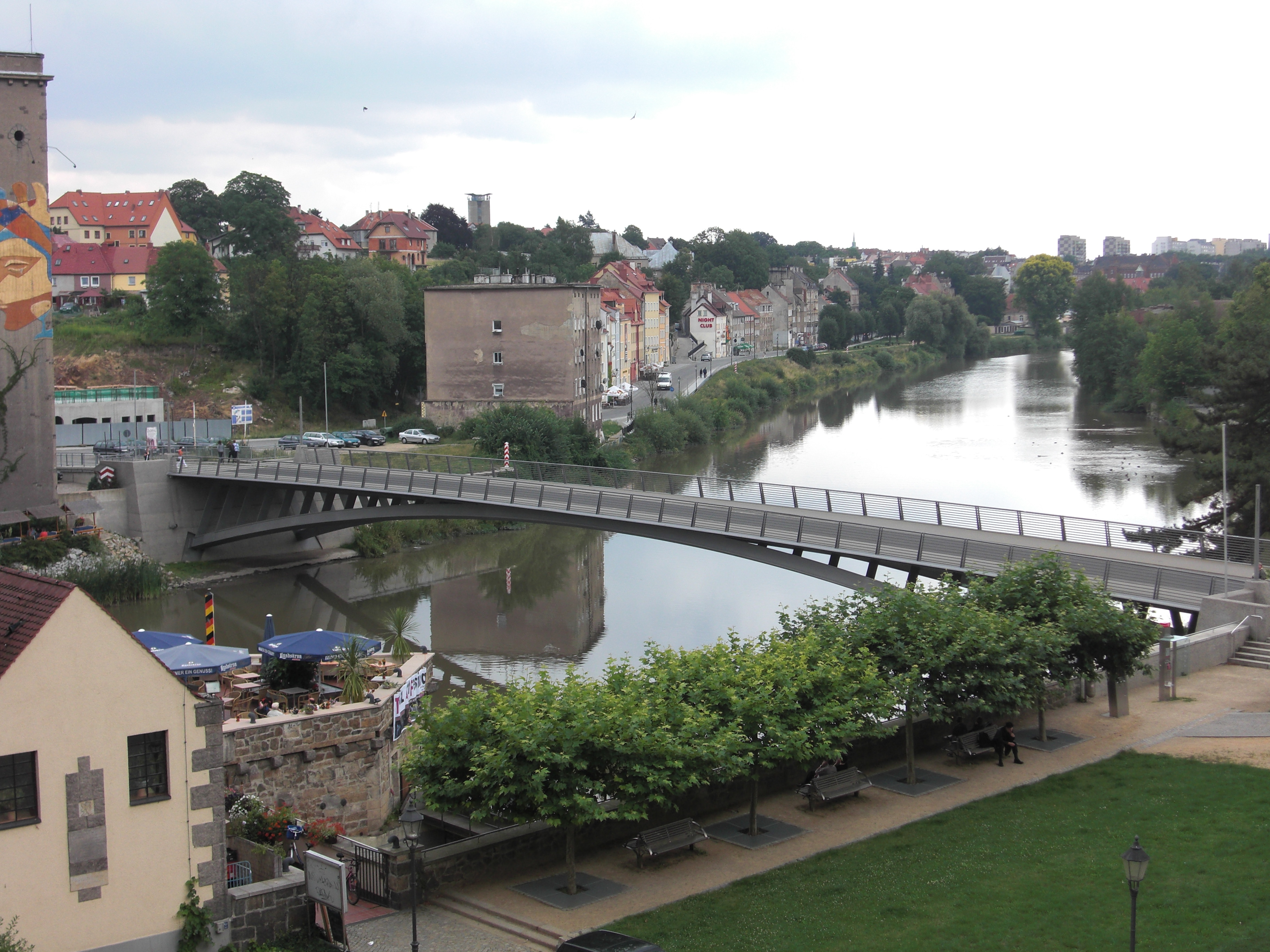 Border crossing bridge. Boundary stones no 136 (Polish pillar) is on the right, while no 137 (German pillar) is on the left side of the bridge.